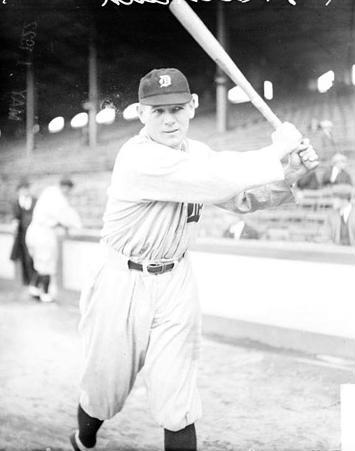 Harry Heilmann at Comiskey Park.